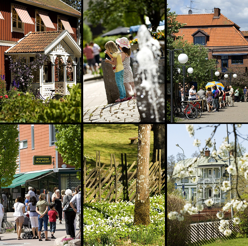 Skillingaryd; A collage of pictures from the small Swedish town.